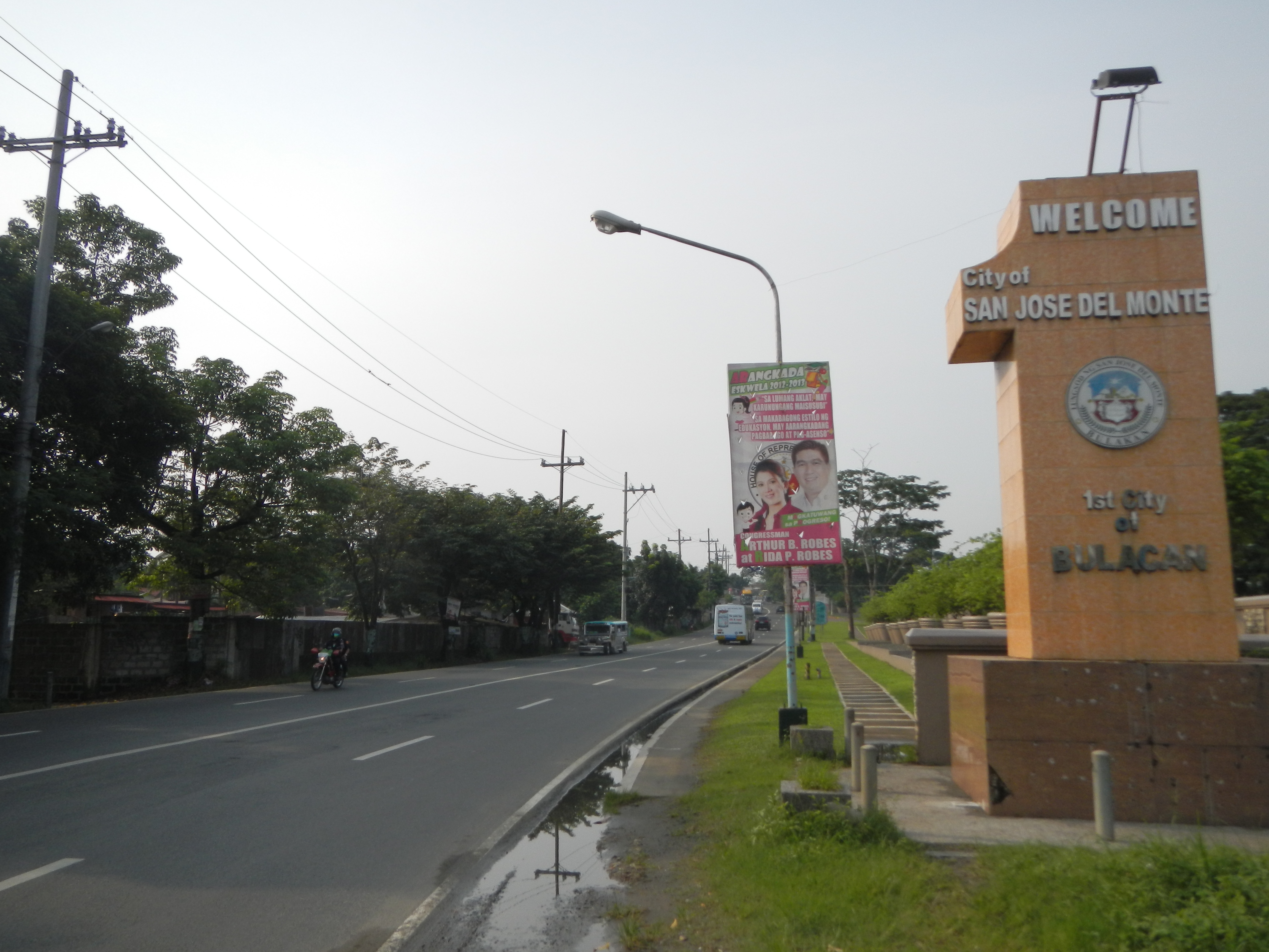 Tungkong Mangga, City of San Jose del Monte Business Centre; landmarks are the Barangay Hall and Multi-Purpose Building, Inaugurated on December 21, 2010 in Pecsonville Subdivision; Nolasco Market, Alataraza beside Colinas Verdes Residential Estates and Country Club, of Sta. Lucia Realty & Development, Inc., Araneta Properties, Inc. and OPMC, North East 17 beside SM City San Jose Del Monte, Alat San Jose del Monte City, Bulacan Bridge K00 28+ 892 Load Limit 15 Tons load limit and River to Creek, connecting the Barangay Tungkong Mangga and San Jose del Monte City, Bulacan Welcome Road Signs in Barangays of Caloocan Barangay 185 16, Tala (Malaria), Caloocan City, along Quirino Highway formerly called the Manila-del Monte Garay Road or Ipo Road.